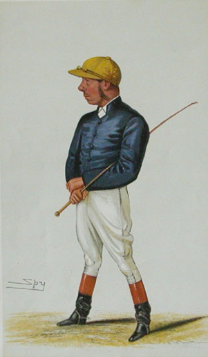 Caricature of "George Fordham' (1837-1887). Caption read "The Demon". Biography